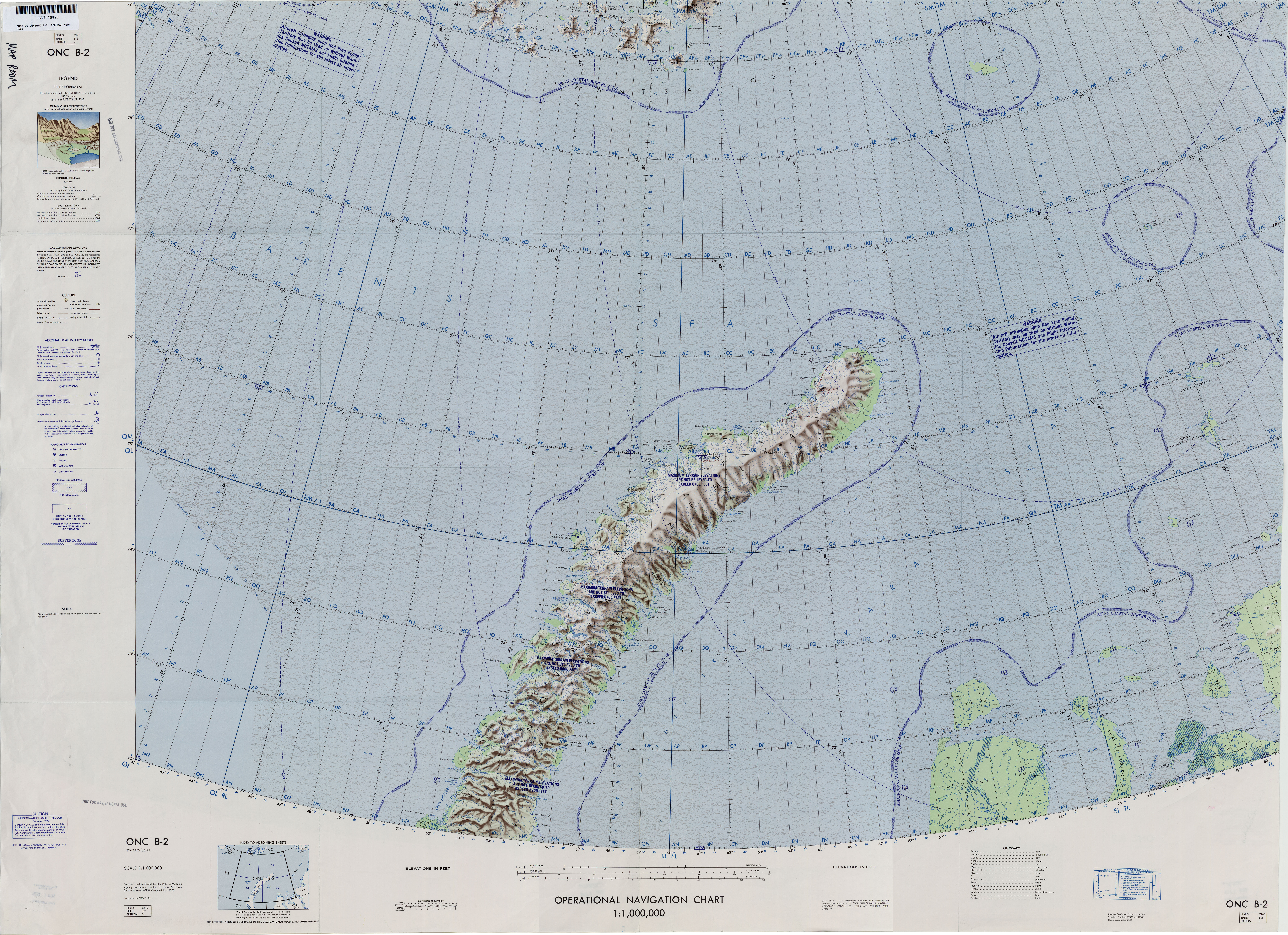 1:1,000,000 scale Operational Navigation Chart, Sheet B-2, 3rd edition. Covers Svalbard (Norway) and the U.S.S.R. Lambert Conformal Conic Projection. Standard Parallels 73 20N and 78 40N. Center longitude 61 15N